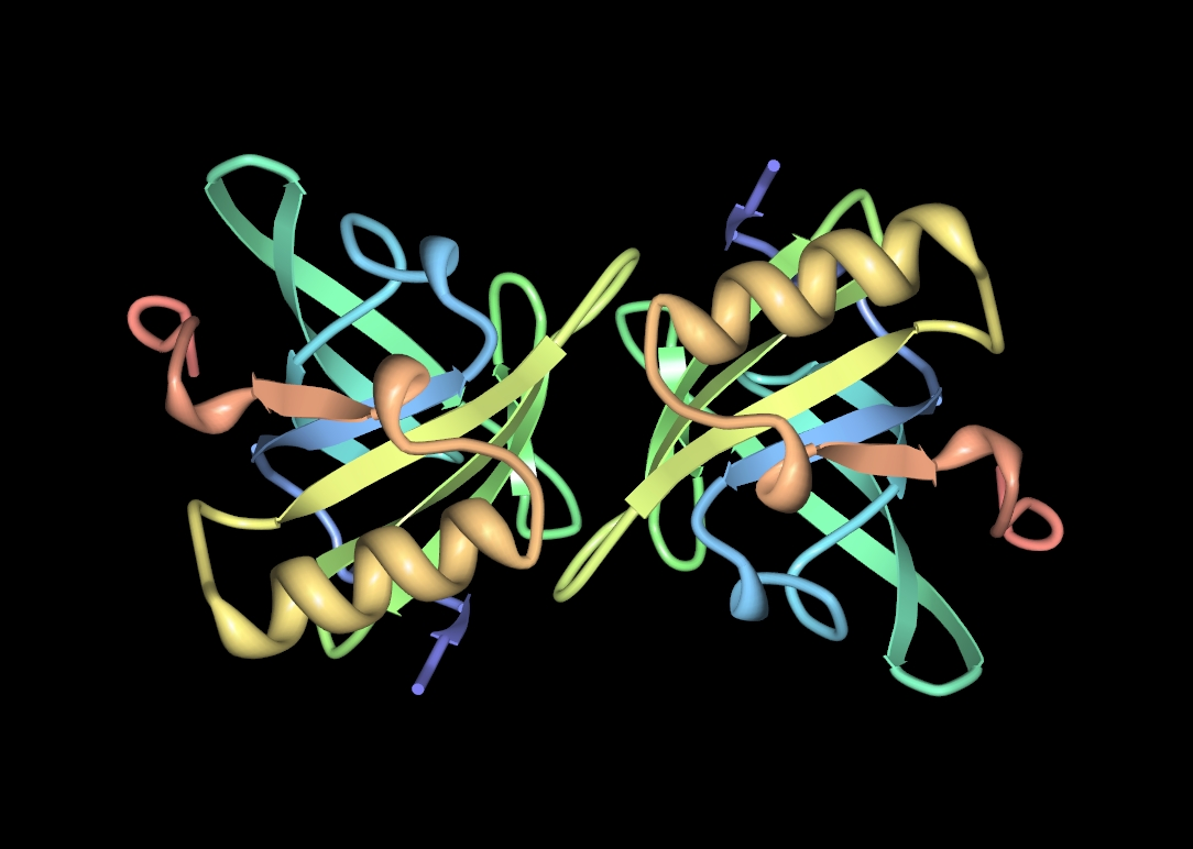 Structure of the major horse allergen Equ c 1 at 2.3 A resolution by x-ray crystallography. Resolved from PDB:1EW3. Equ c 1 crystallizes in a novel dimeric form.